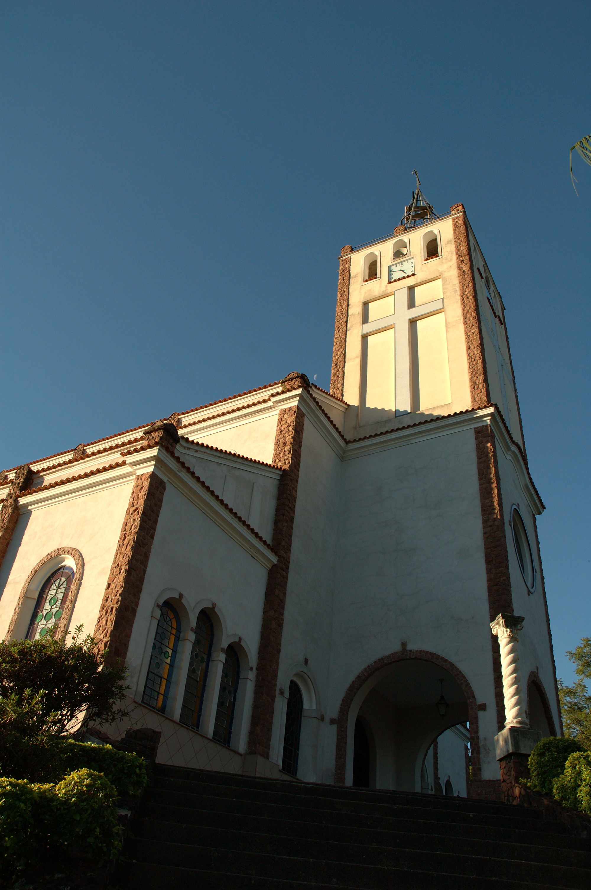 Church in Aguas da Prata, Brazil